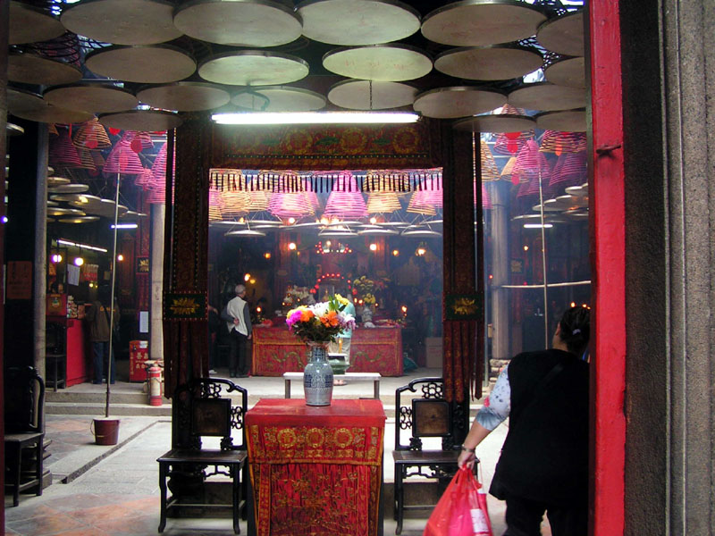 Inside of the Tin Hau temple in Yau Ma Tei, Hong Kong